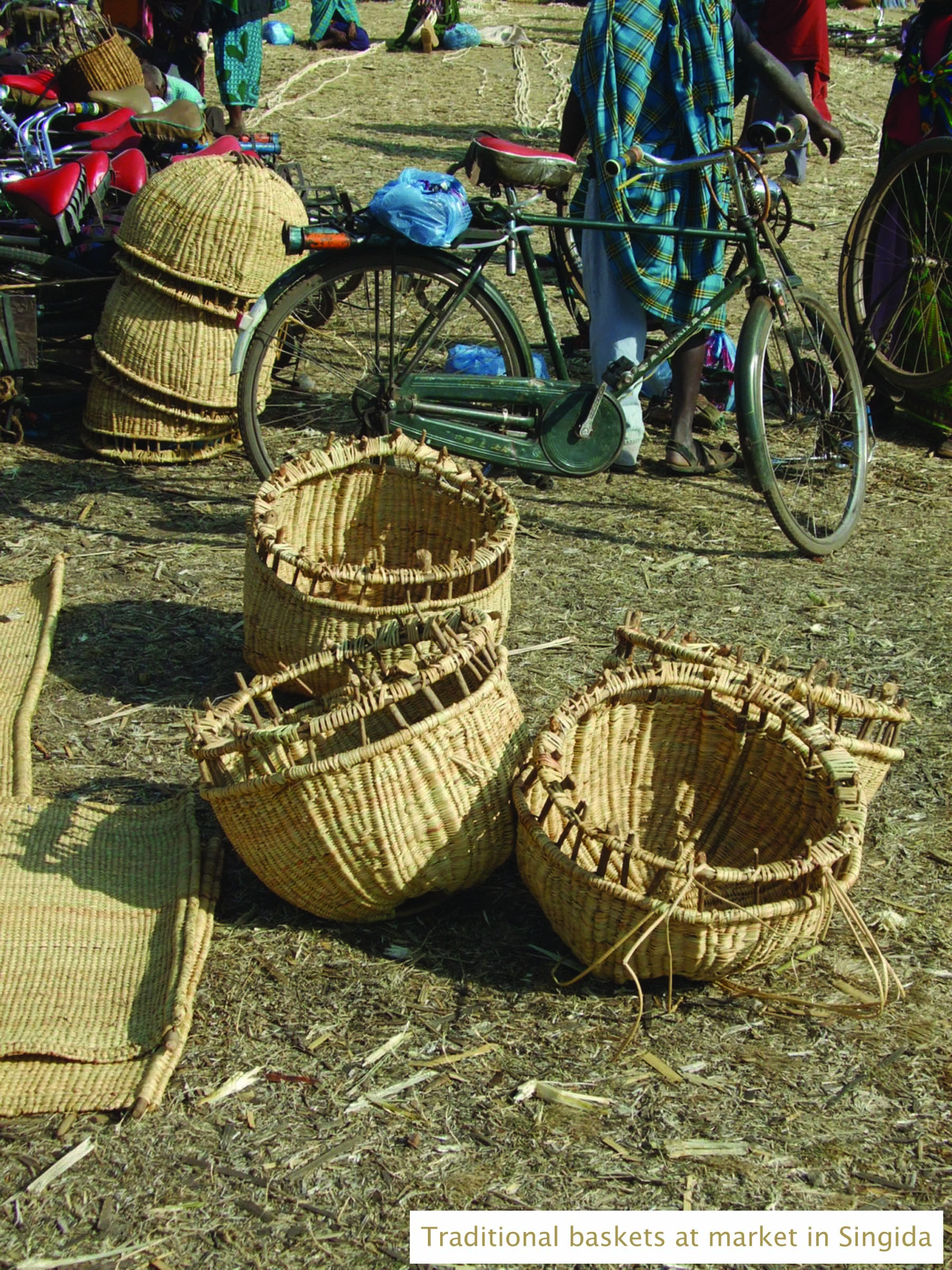 This is an image of music and dance from Tanzania